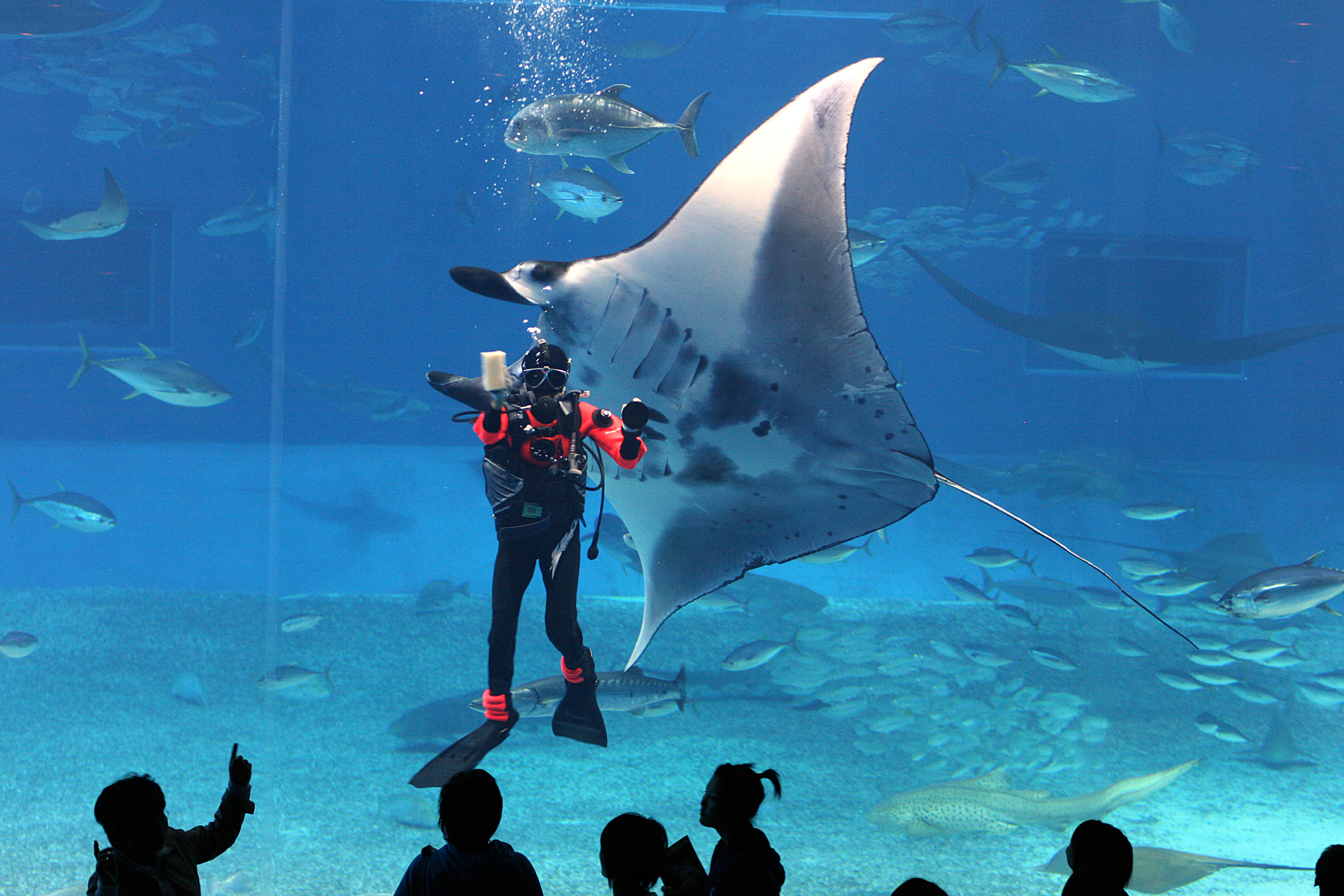 Okinawa Churaumi Aquarium visitors watch as a diver cleans the aquarium's largest tank Dec. 20, 2008. The diver was rarely interrupted by curious whale sharks and rays swimming by.